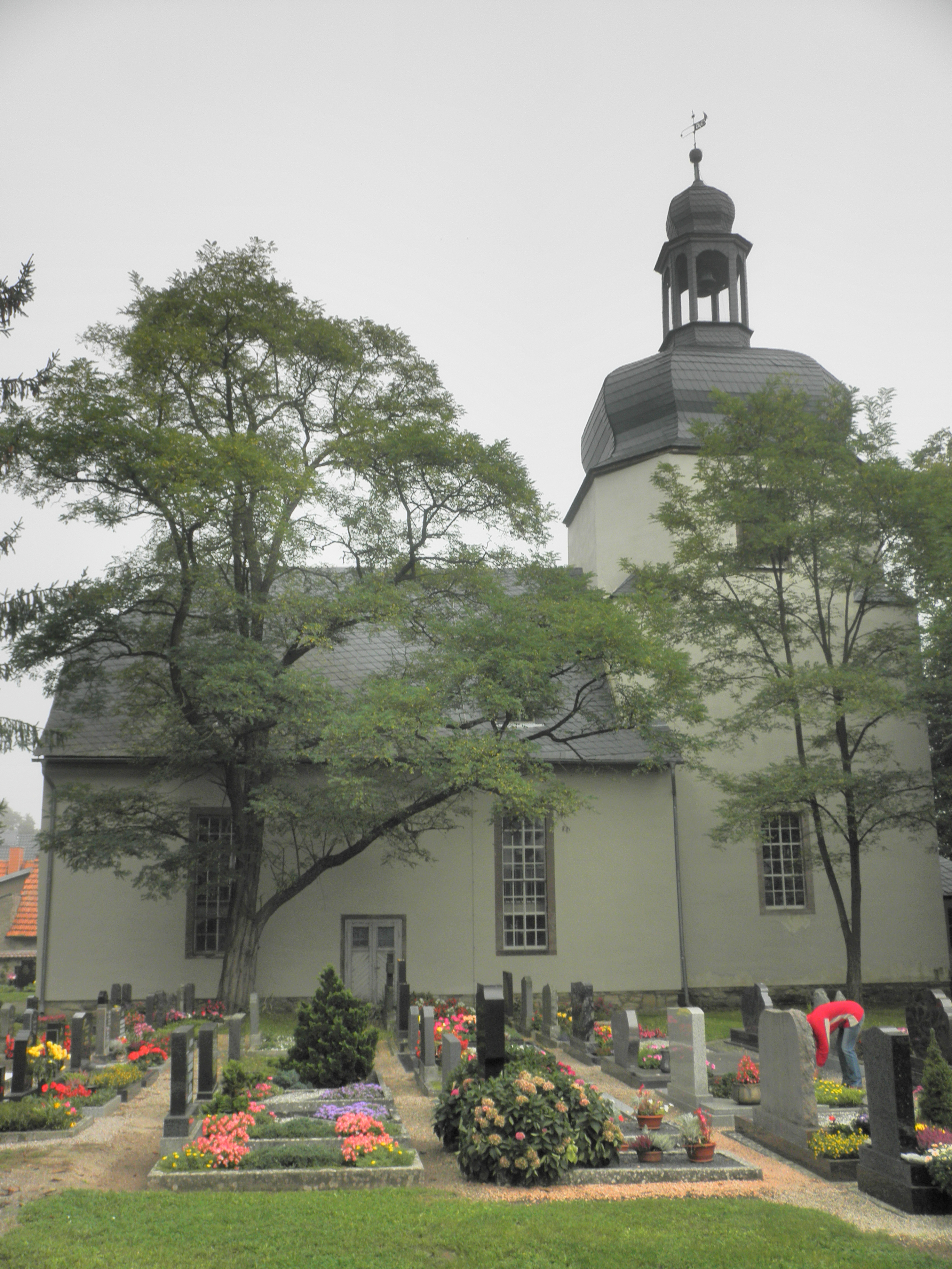 Church in Oberheldrungen in Thuringia